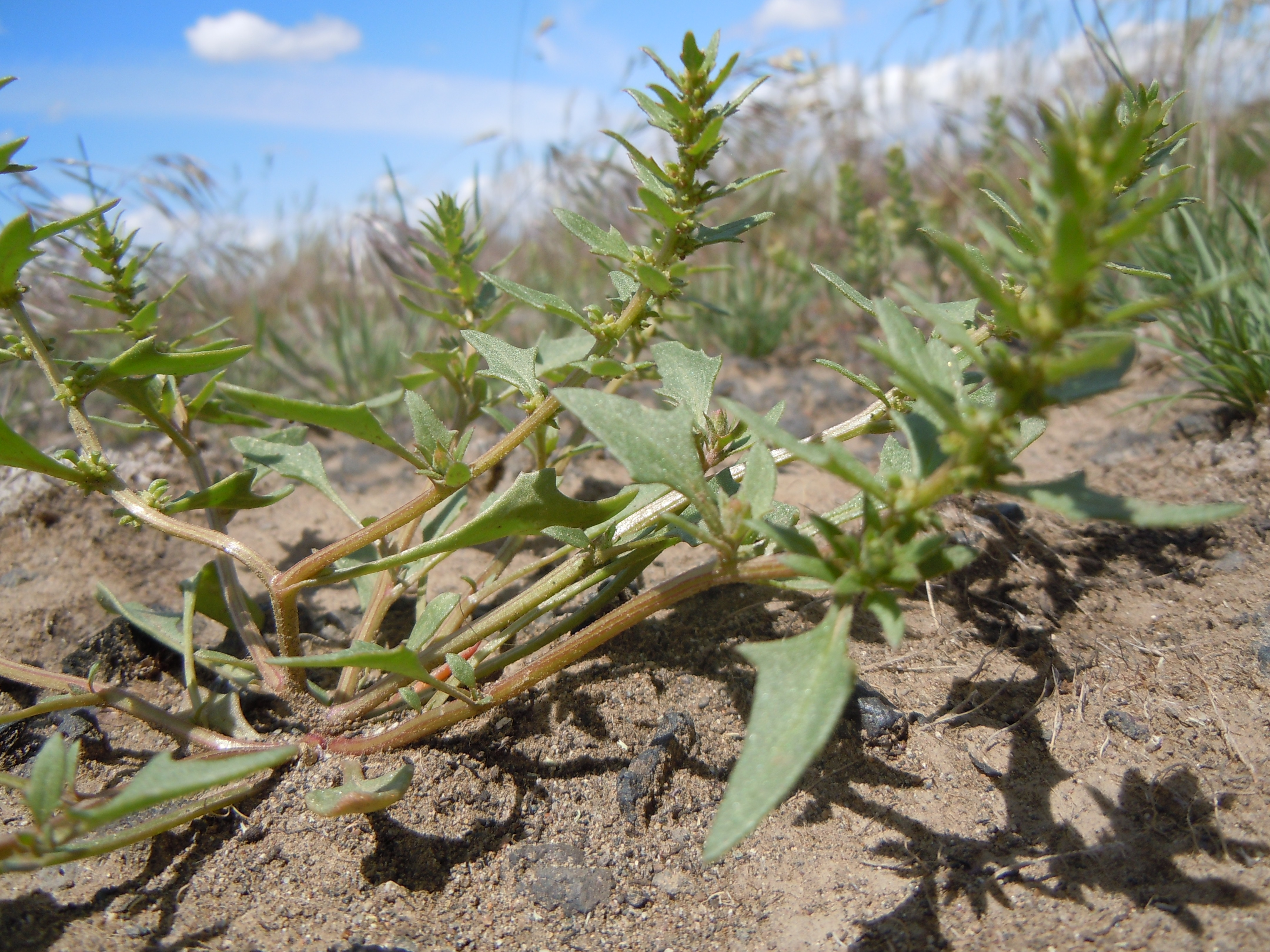 Monolepis seemingly should be a good colonizer but it is not that common in the INL area but seems to do well post-burn.